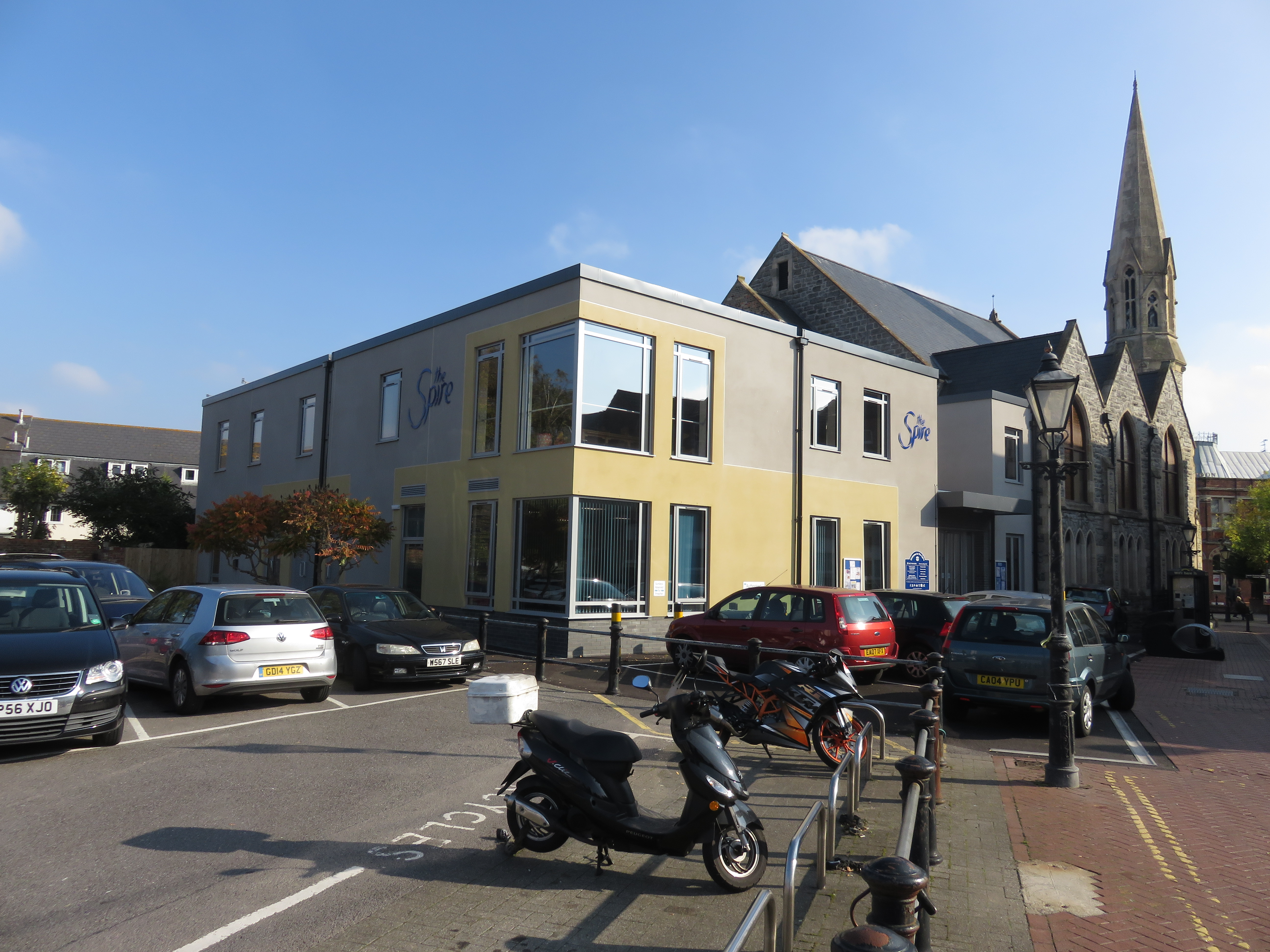 Poole Methodist Church from the rear, displaying extension nominated for the 2016 Carbuncle Cup (for "the ugliest building in the United Kingdom completed in the last 12 months").